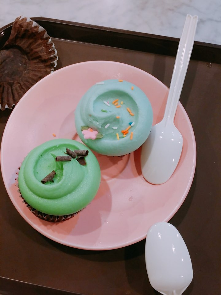 Magnolia's Cupcakes in SouthKorea